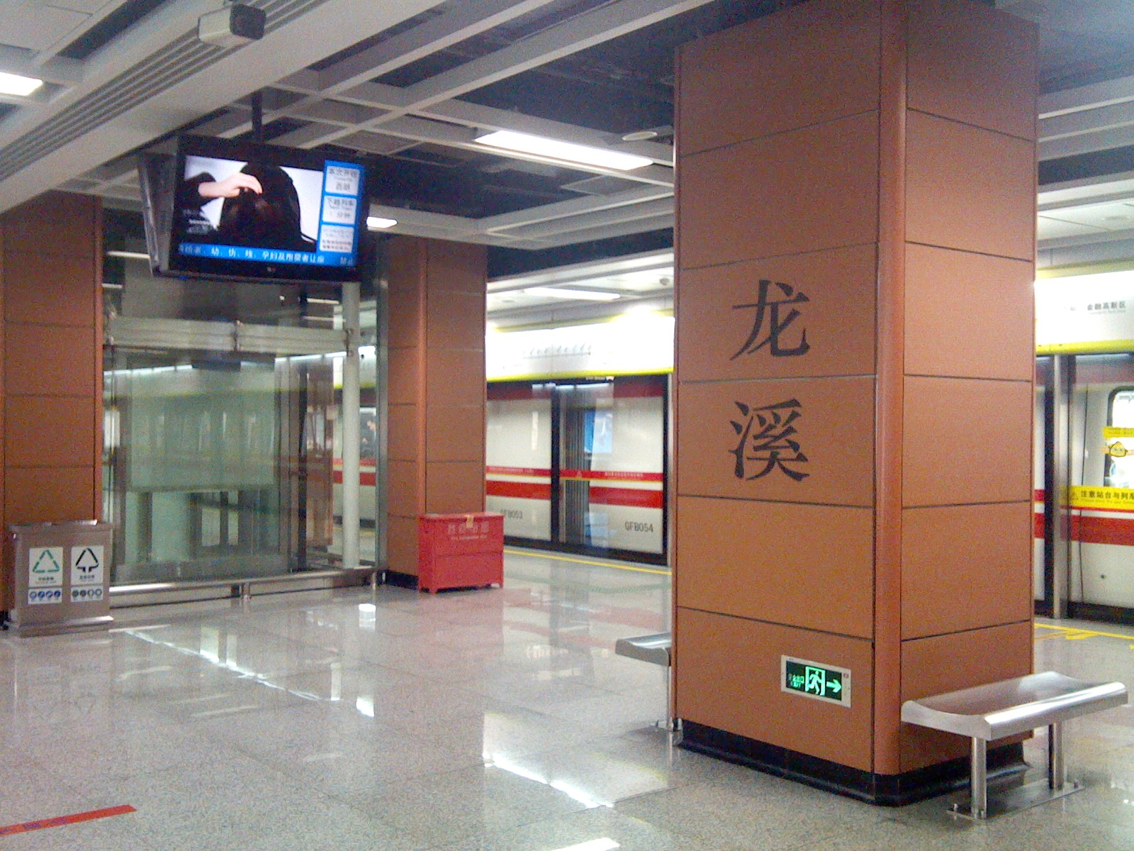 车站月台（西朗方向）